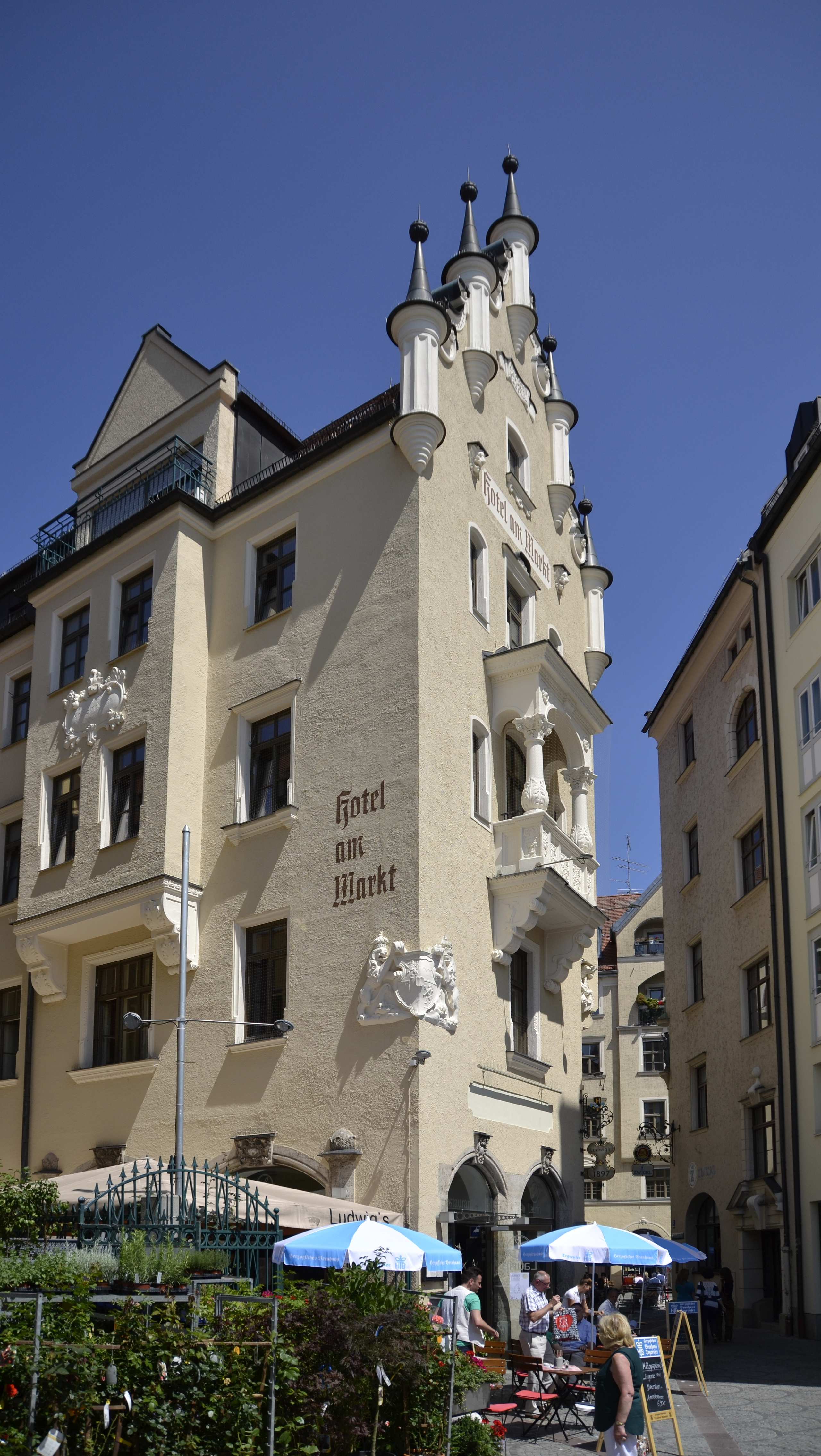 The cultural heritage monument Heiliggeiststraße 6 in Munich, Bavaria. This is a photograph of an architectural monument.